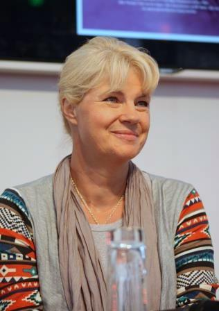 Nele Neuhaus, Book Fair 2016 in Frankfurt/Main